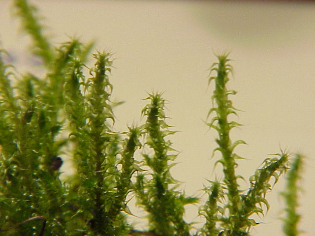 Species: Rhytidiadelhus squarrosus Family: ' Image No. 1